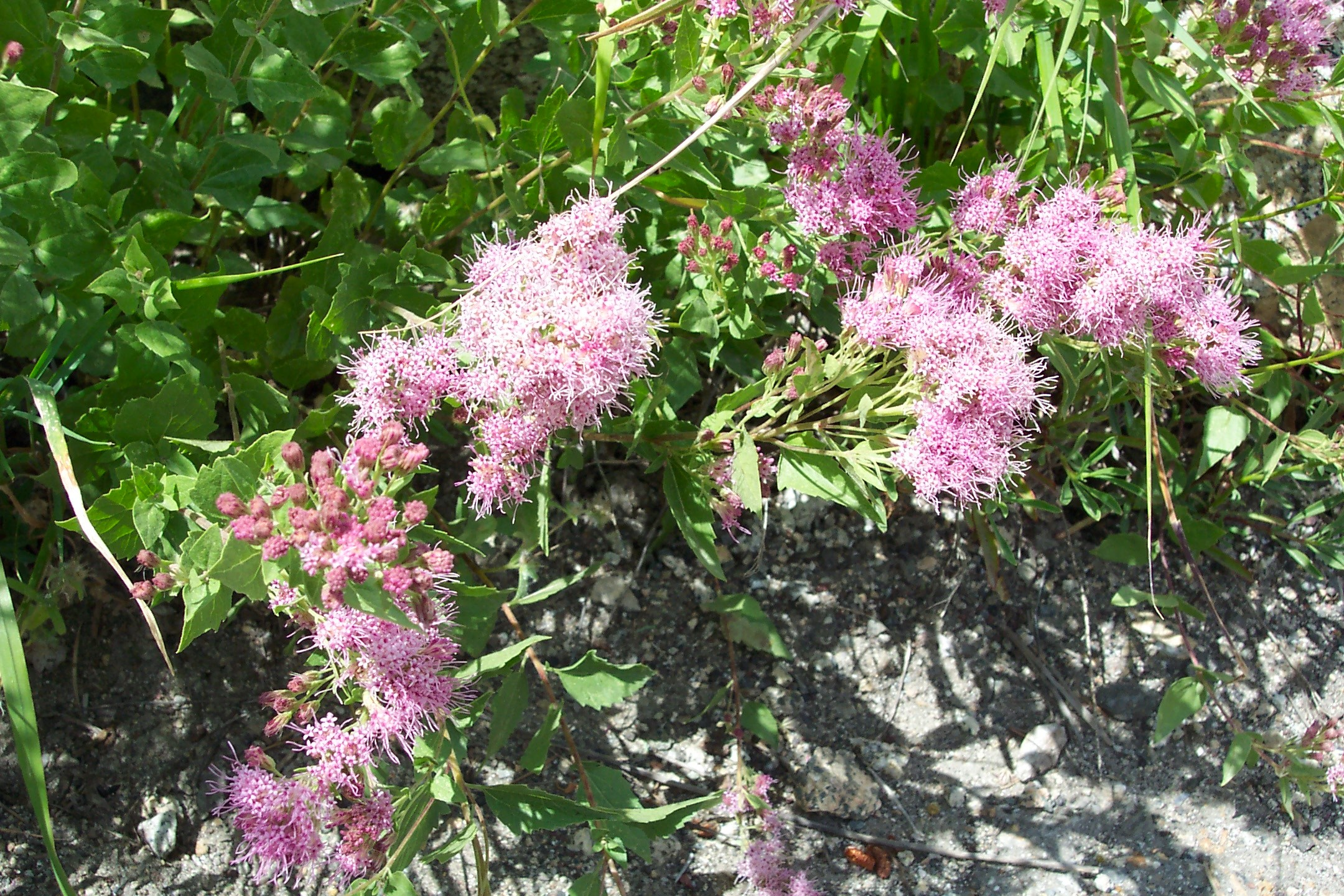 Flat-top Whiteweed. Flowering plant. Location: Inyo Co., CA, USA.